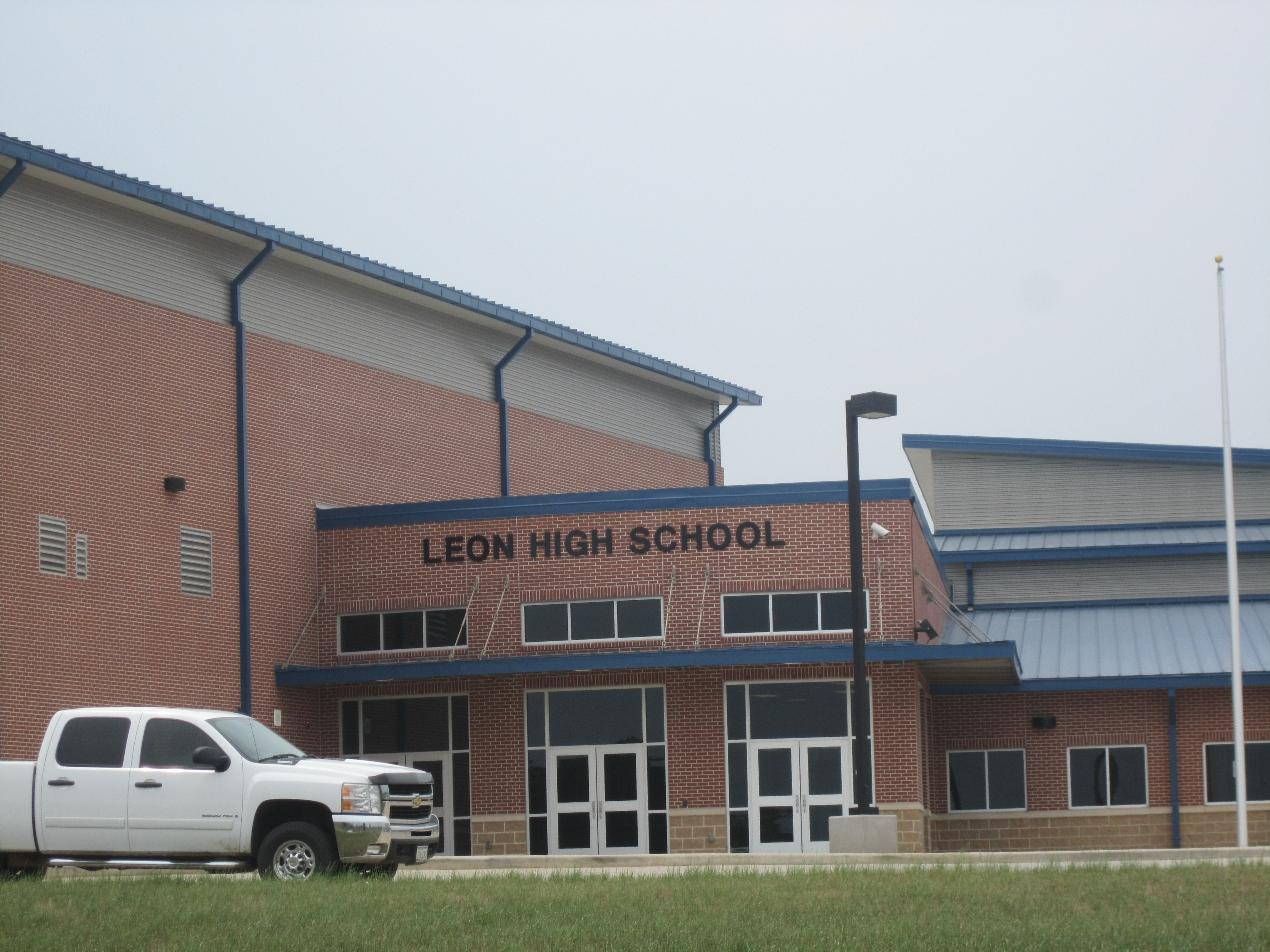 I took photo in Leon County, TX, with Canon camera. (Leon High School, of the Leon Independent School District, on U.S. Route 79 between Jewett and Marquez in western Leon County, Texas.)